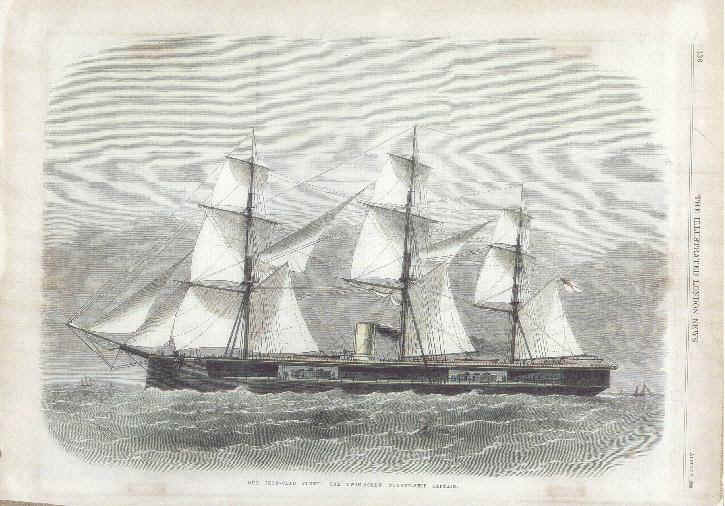 Royal Navy ironclad HMS Captain, from the series "Our Ironclad Fleet" in The Illustrated London News, August, 1869. Print in possession of uploader.